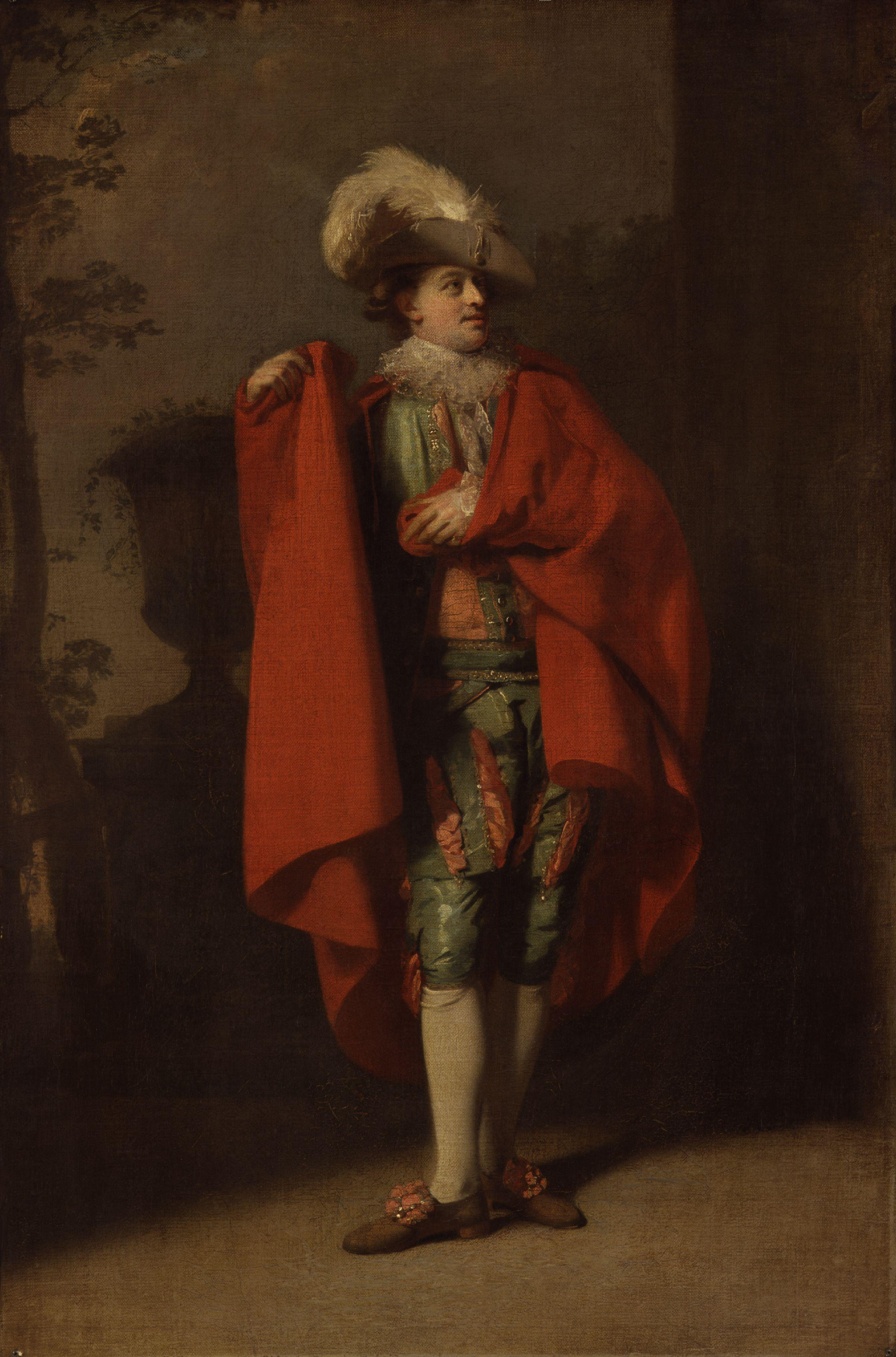 John Palmer as Count Almaviva in 'The Spanish Barber, by Henry Walton (died 1813). All images in this batch have been confirmed as author died before 1939 according to the official death date listed by the NPG.